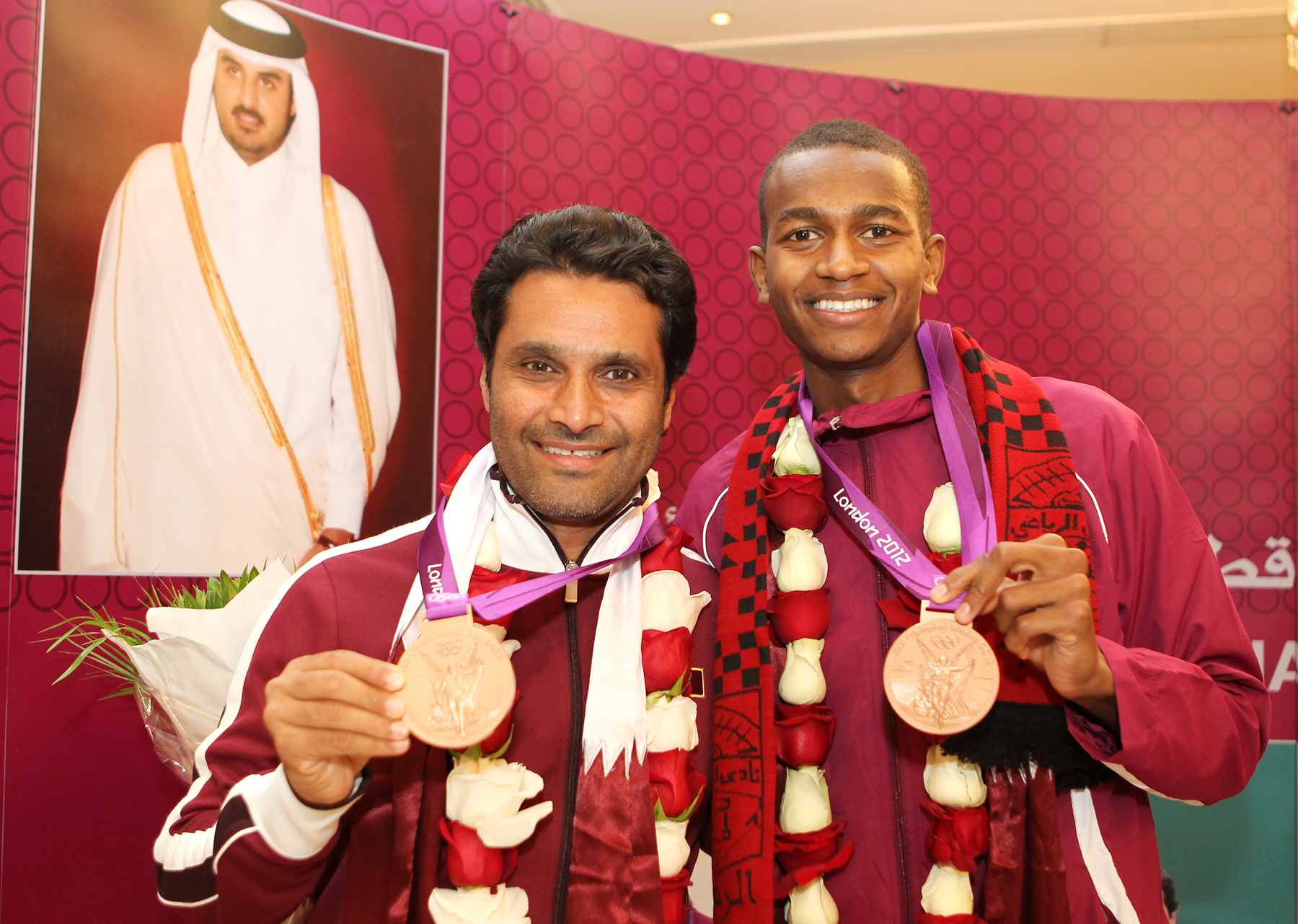 Qatari skeet shooter Nasser Saleh Al Attiyah, left, and high jumper Motaz Essa Barsham display their Olympic bronze medals upon arrival from London at the Doha International Airport. Picture by Mohan